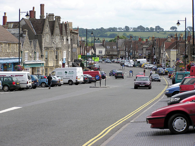 The wide main street of Chipping Sodbury. Cars are parked where market stalls would once have been. Taken by Adrian Pingstone in July 2004 and released to the public domain.